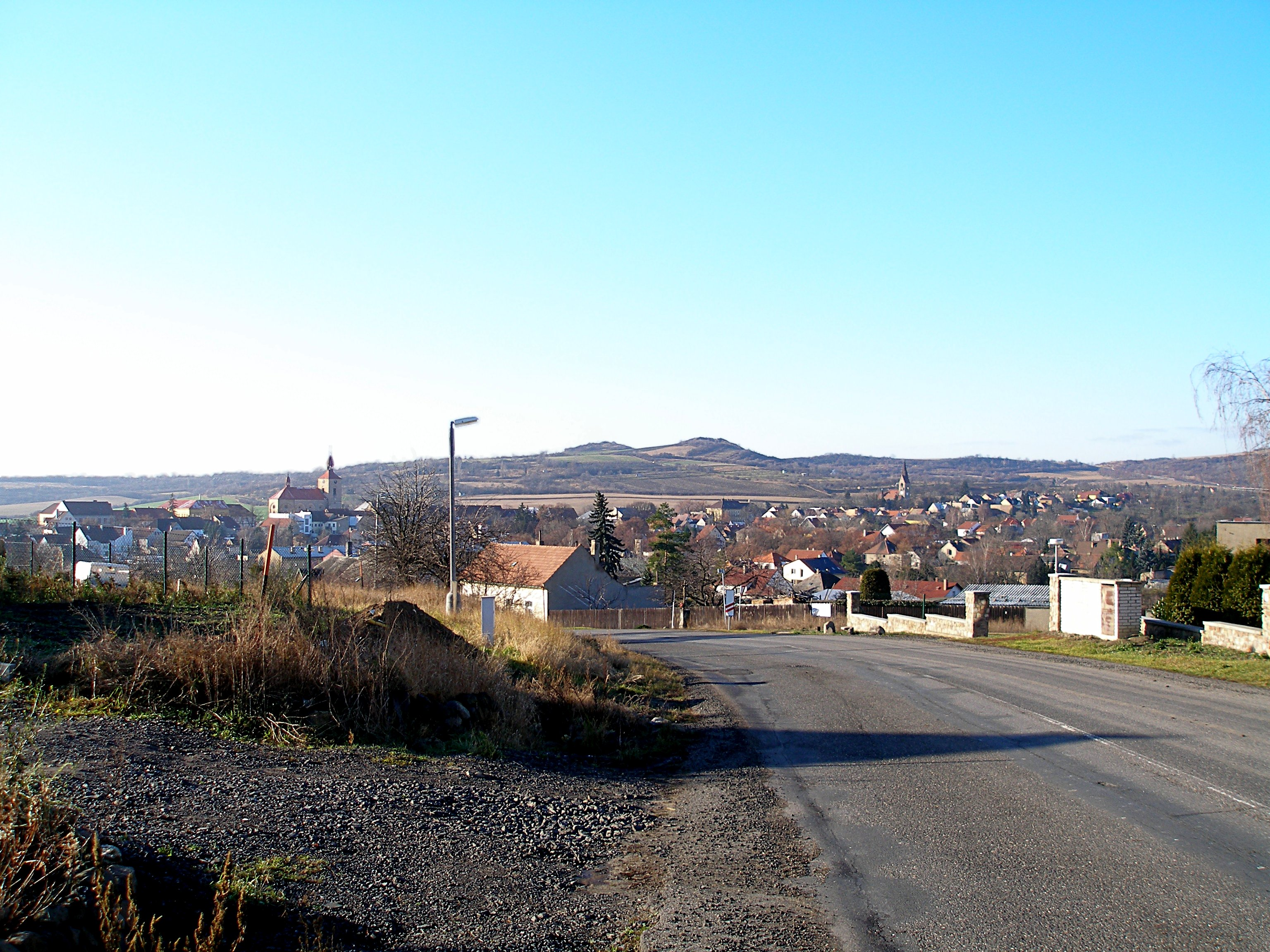 Town of Třebenice, Litoměřice Distict, Czech Republic, as seen from the northeast. In the left church of the Nativity of the Virgin Mary, further in the right formr Lutheran church which nowadays houses Museum of Bohemian Garnet